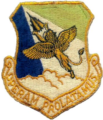 Emblem of the SAC 4045th Air Refueling Wing